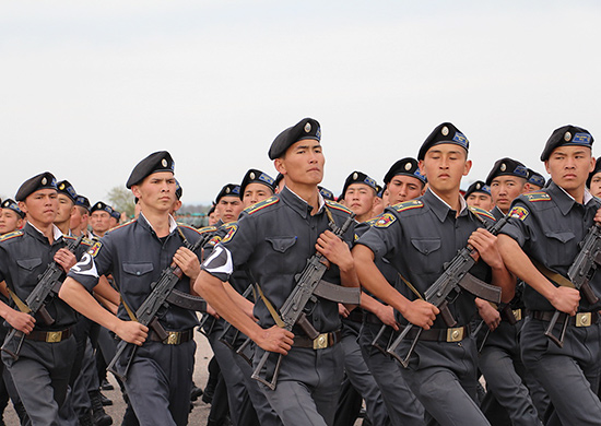 Курсанты Академии МВД Кыргызской Республики имени генерал-майора милиции Эргеша Алиевича Алиева во время генеральной репетиции парада Победы в Бишкеке.